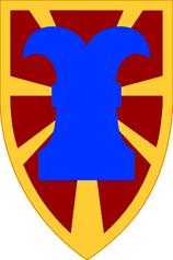 7th Sustainment Brigade SSI from [1]